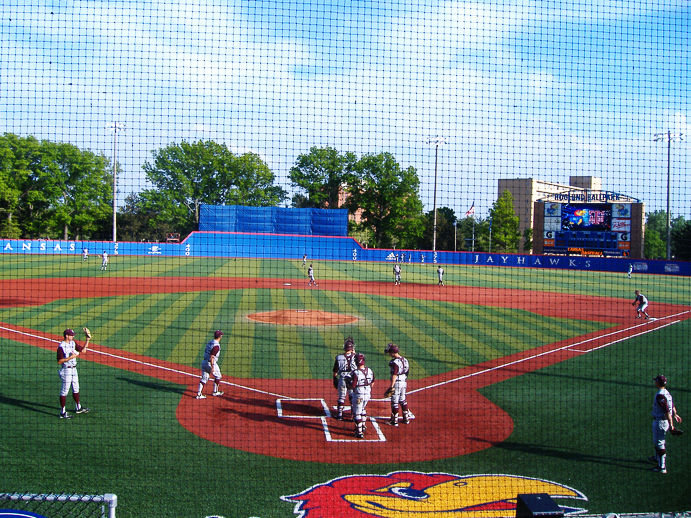 Hoglund Ballpark in Lawrence, Kansas. Home of the Kansas Jayhawks.